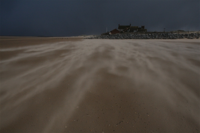 Sand storm, Brancaster A howling wind sends a fine carpet of dry sand along the beach, here highlighted by the sun (behind) against the darker, wetter sand, and making a fine contrast with the storm clouds glowering over the club house of the Royal West Norfolk Golf Club.